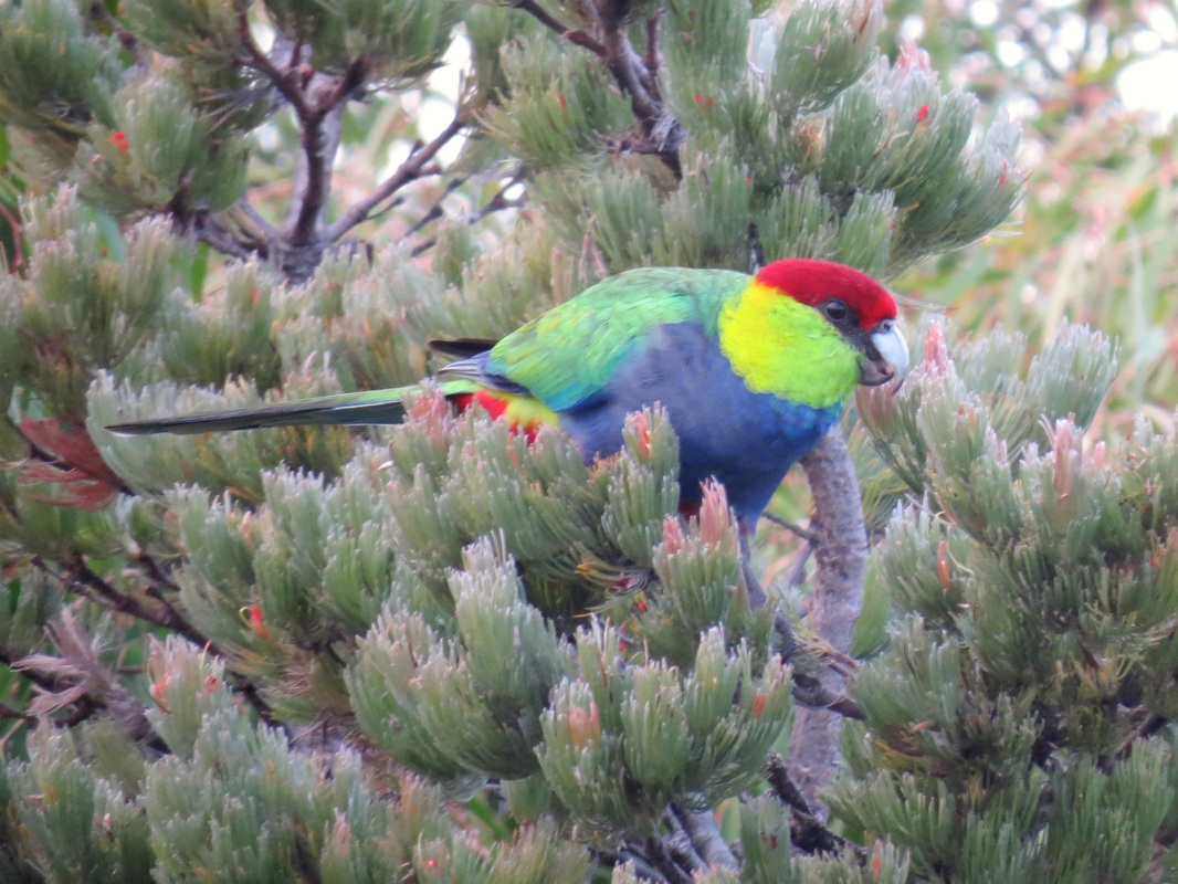 Red-capped Parrot, foraging in woollybush (Adenanthos sp.) - photographed in Albany, Western Australia Image by James Mustafa